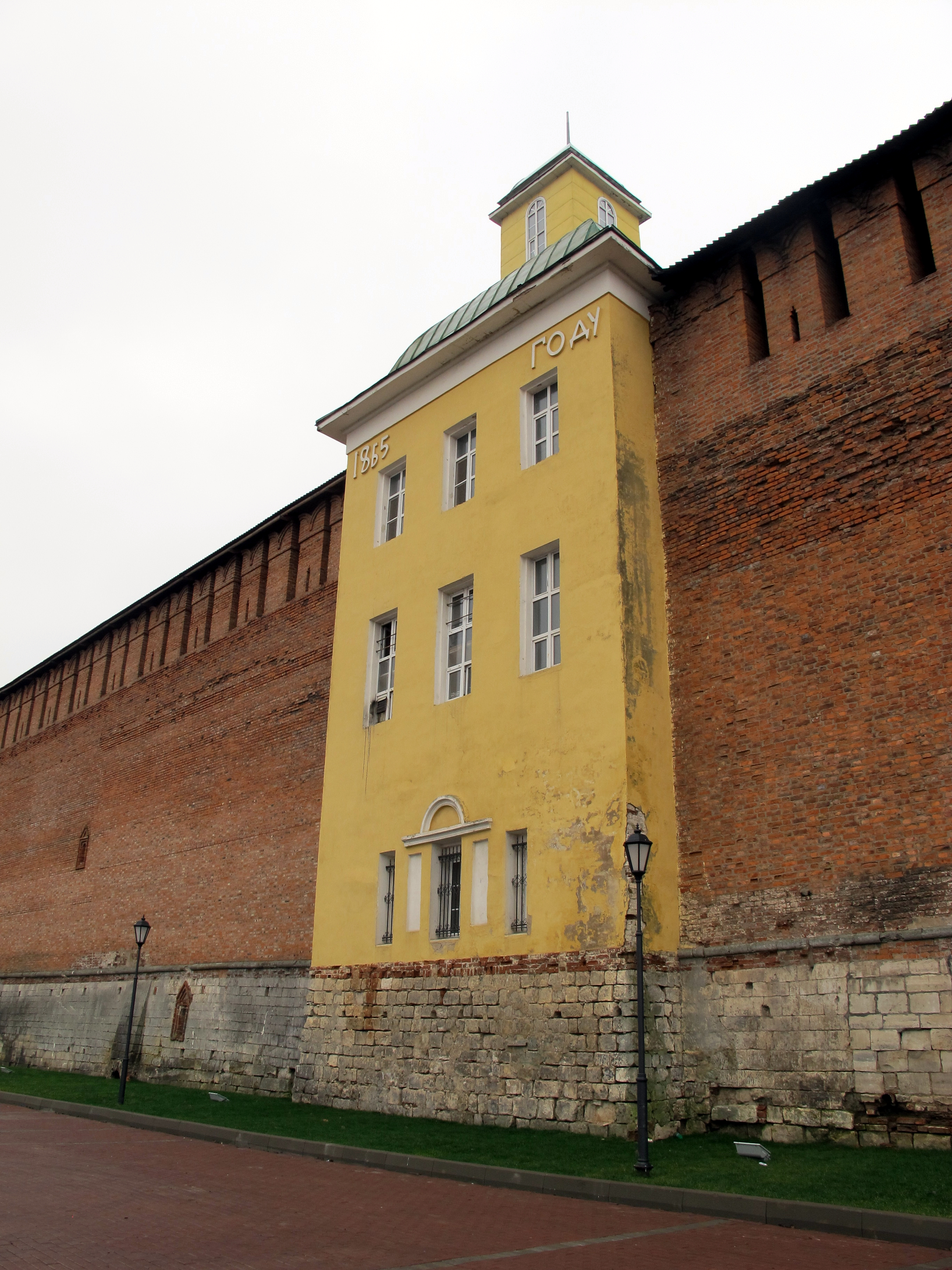 Smolensk Kremlin (2013-11-08)